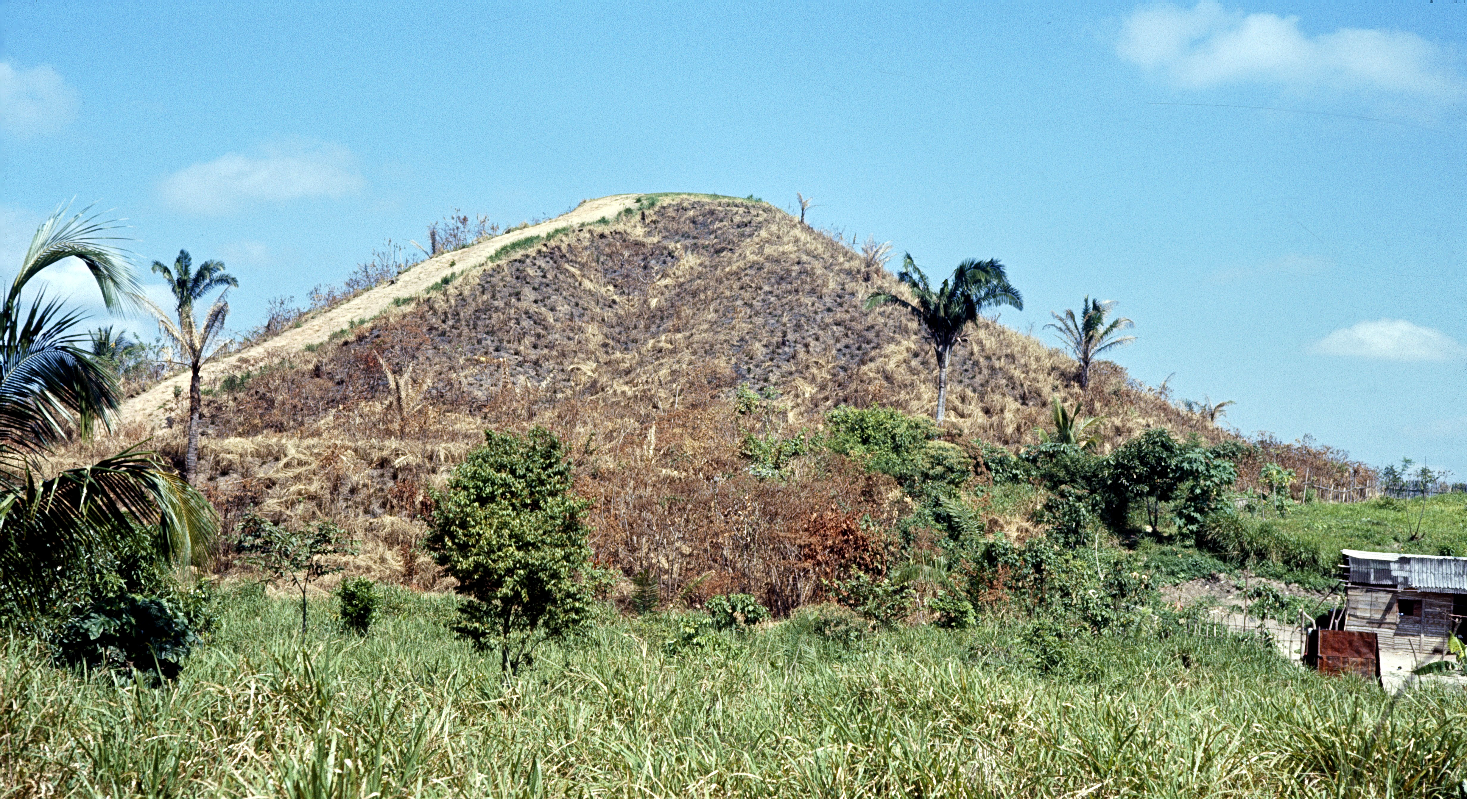 La Venta, Tabasco, Mexico: Pyramid